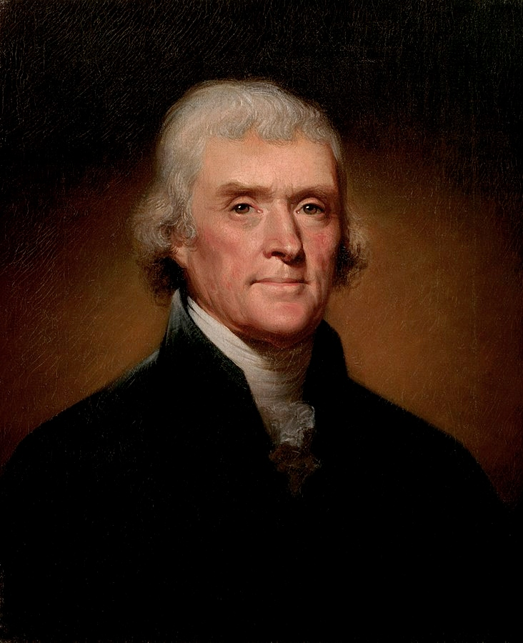 Cropped portrait of Thomas Jefferson, the third President of the United States. Exposure increased and shadows decreased using Photo Editor at